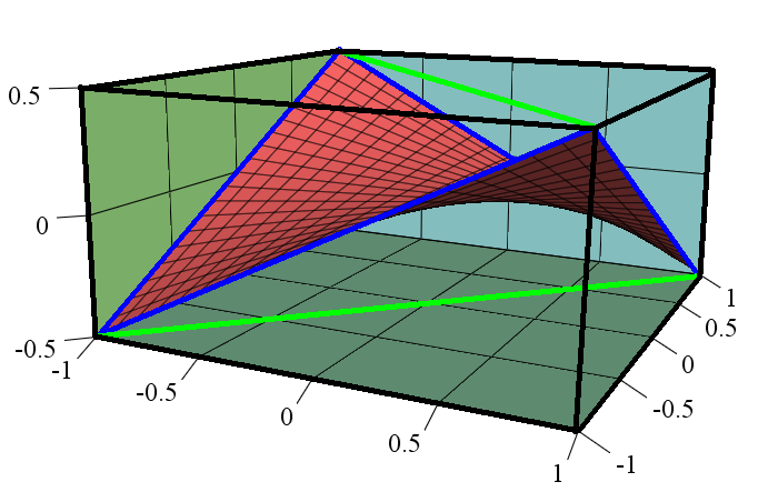 example regular skew polygon